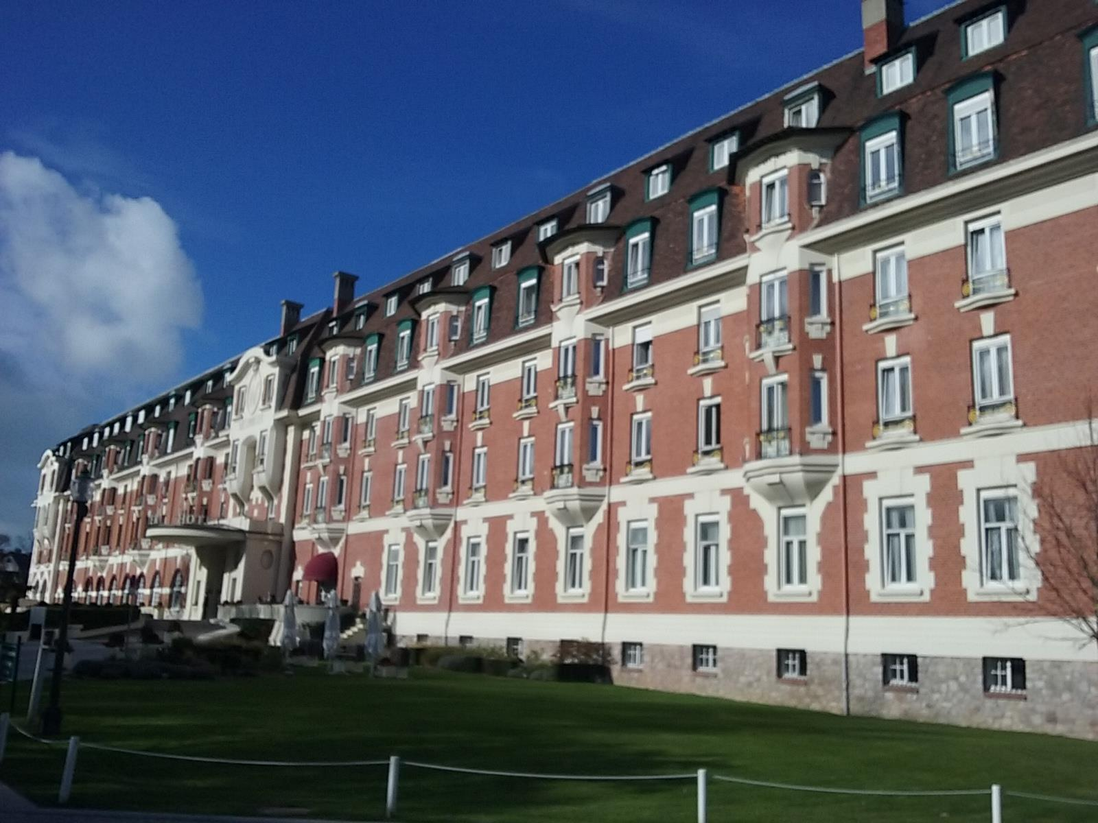 Hôtel Barrière Le Westminster, Le Touquet, France.